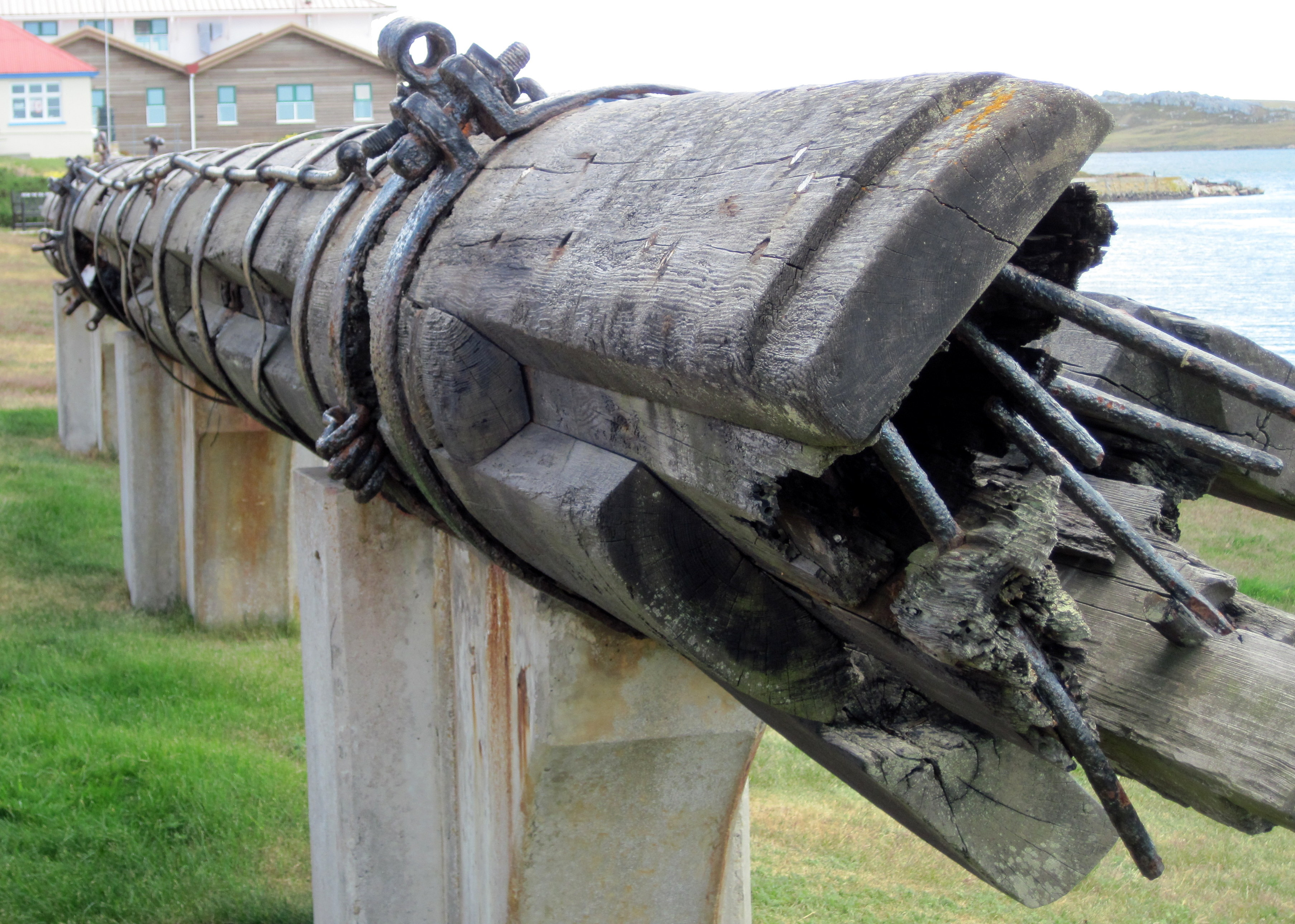 Mizzen mast of the S.S. Great Britain at Port Stanley, Falklands